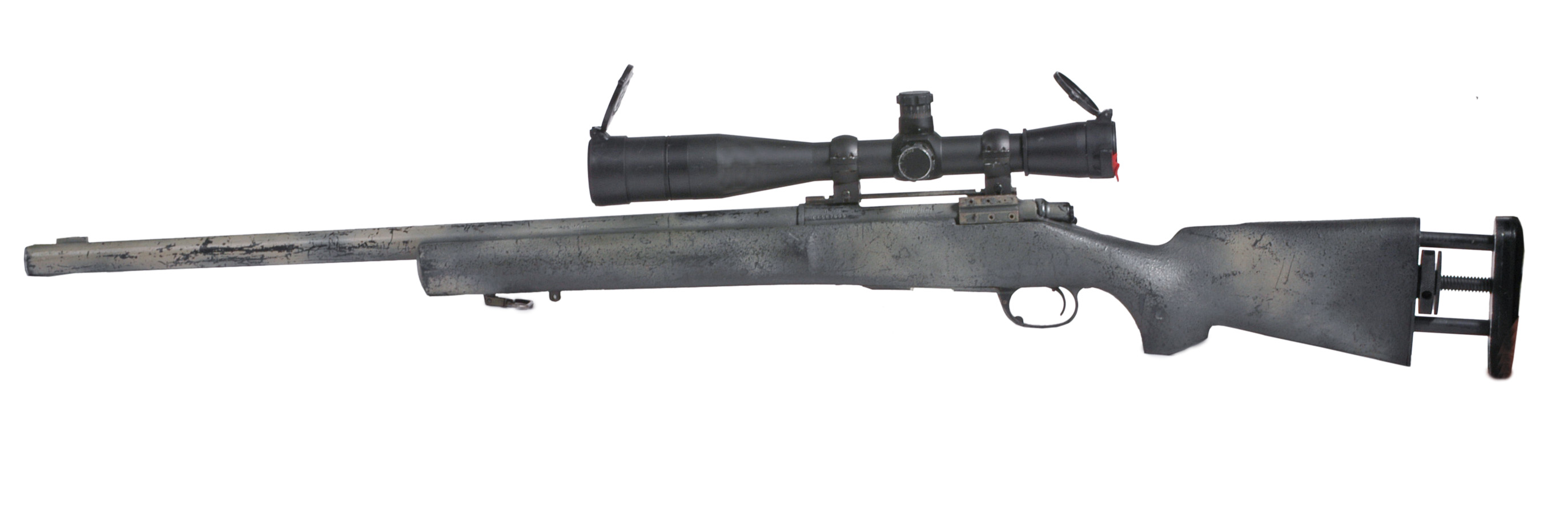 The M24 enables sniper teams to engage enemy personnel with a 7.62mm bolt-action rifle using precision fire at extended ranges.